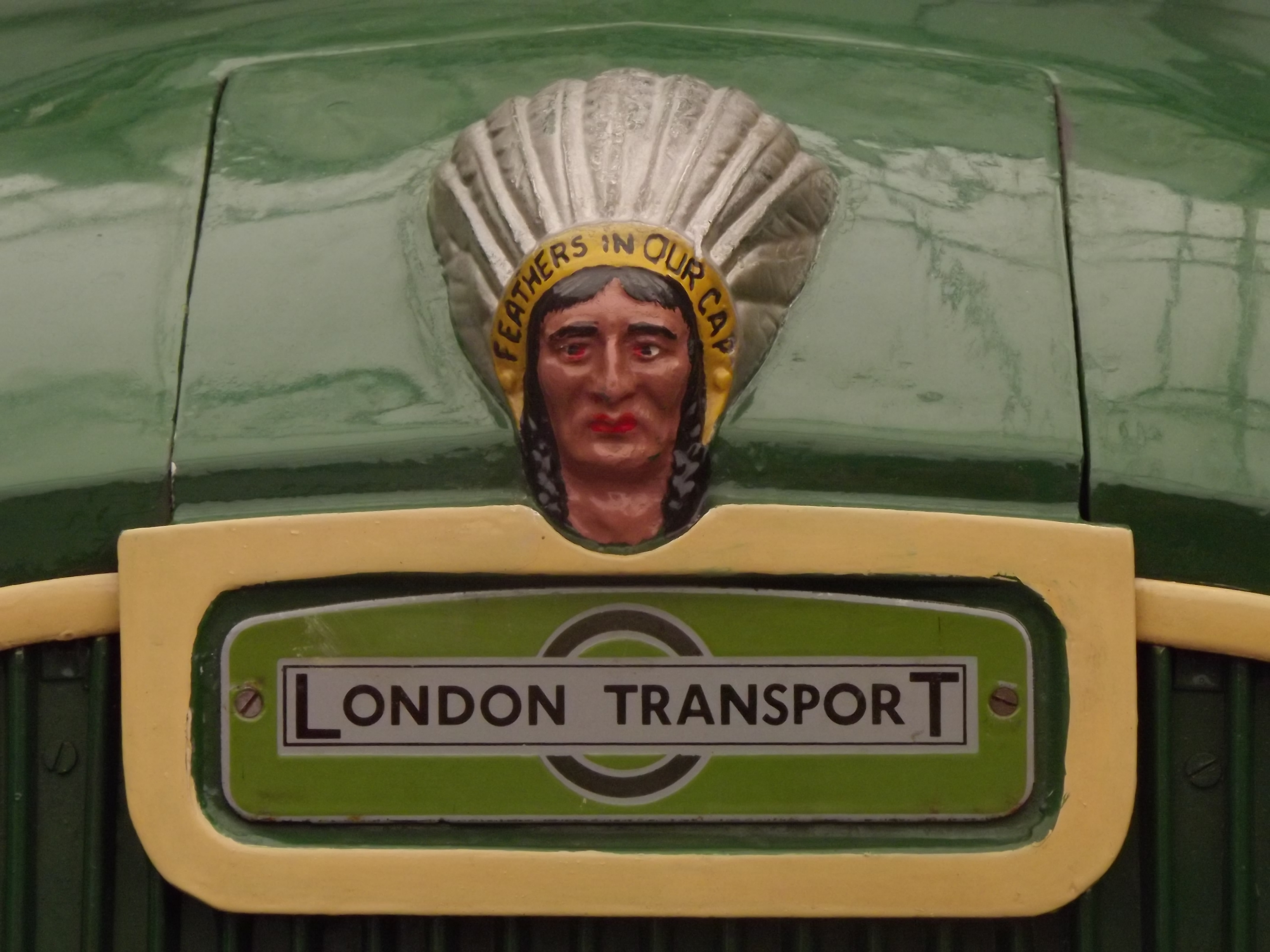 London Transport. Distinctive red indian chief on the bonnet of a vintage London Country bus.